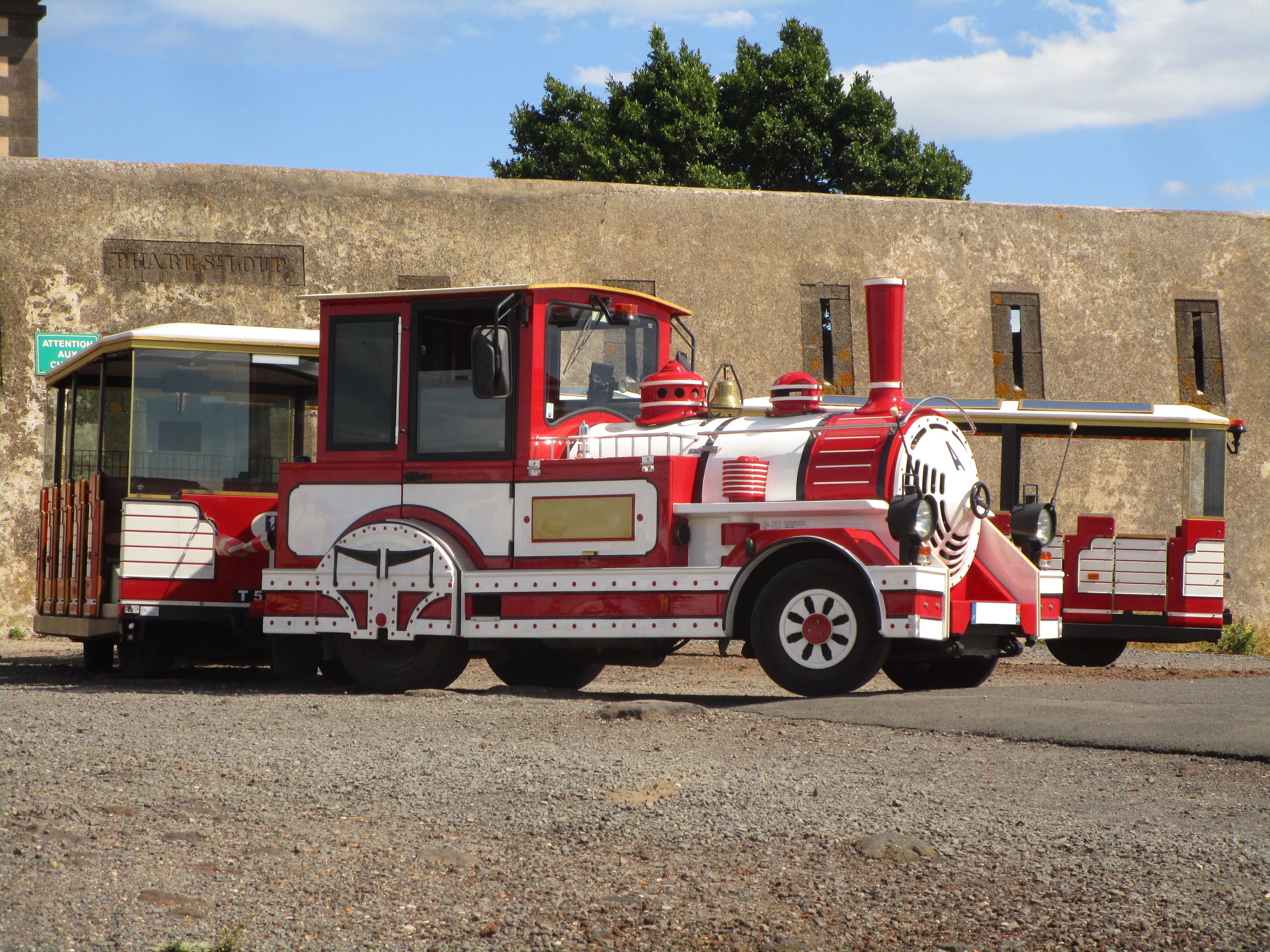 The touristic train A of the Cap d’Agde, on the top of the Mont Saint-Loup — in Agde, France — on June 30, 2017.